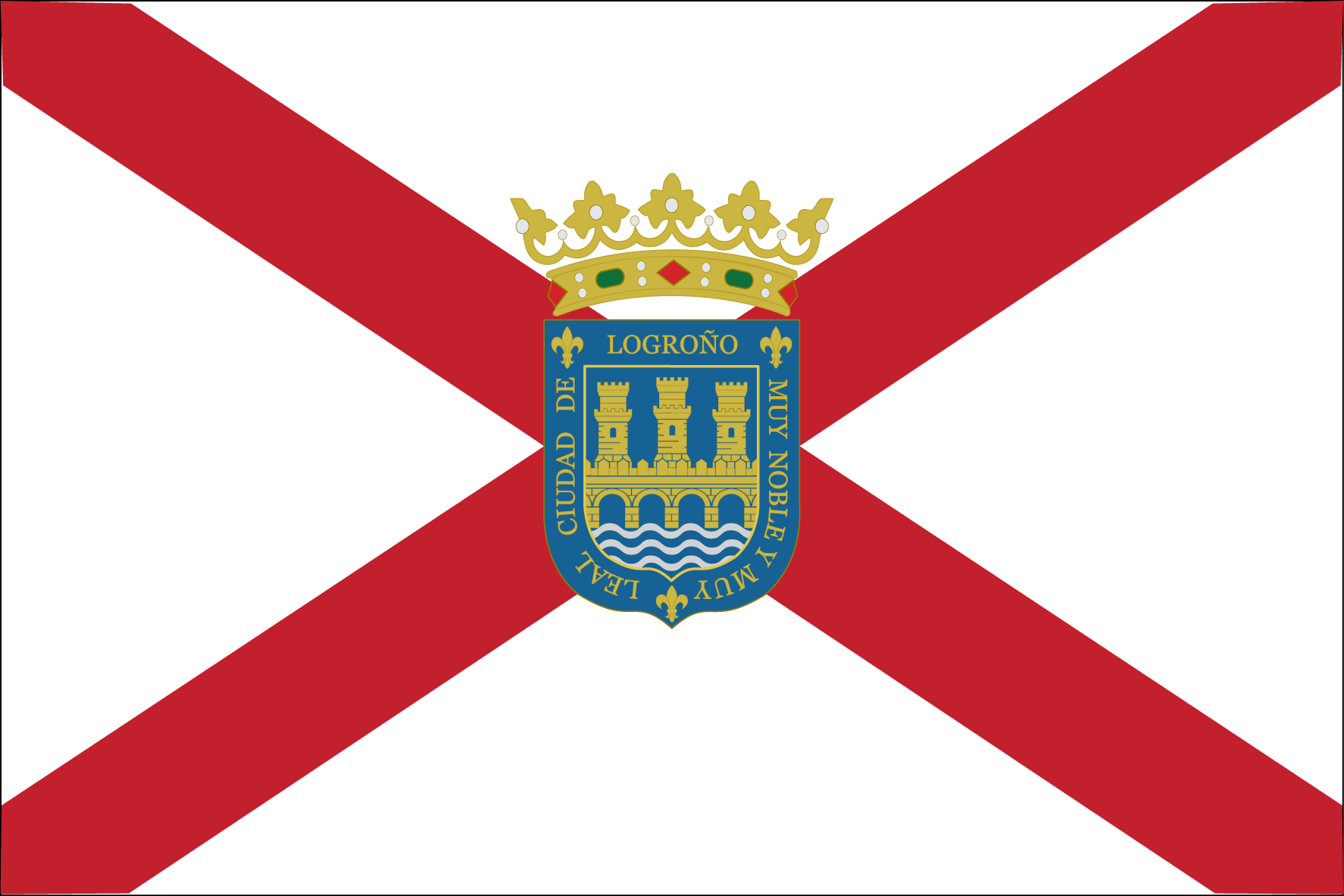 Flag of Logroño, capital city of La Rioja, Spain